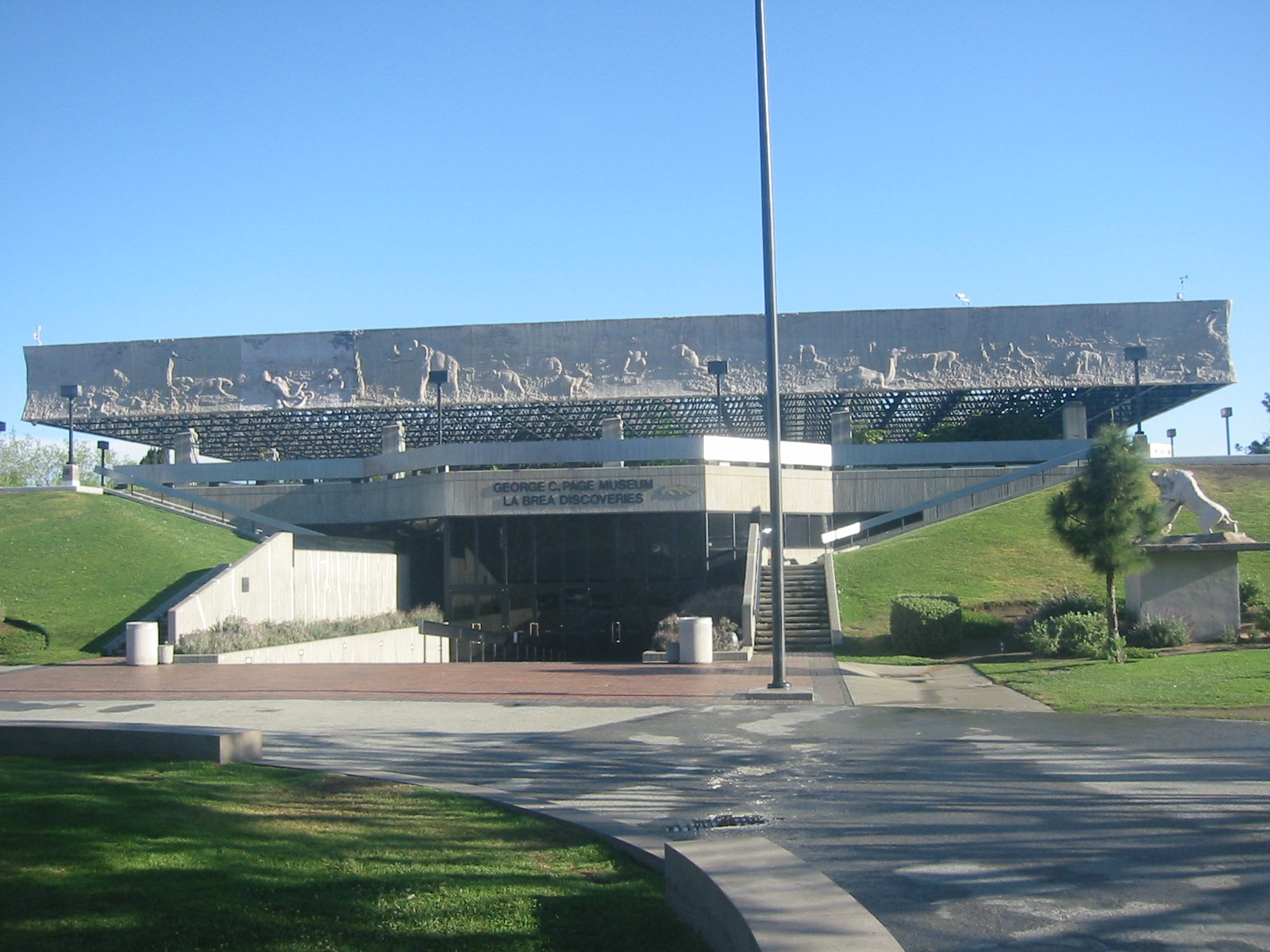 George C. Page Museum — fossil and natural history museum at the La Brea Tar Pits, in the Miracle Mile district of Los Angeles, California. Located on Wilshire Boulevard next to LACMA in Hancock Park (the city park), a part of "Museum Row."